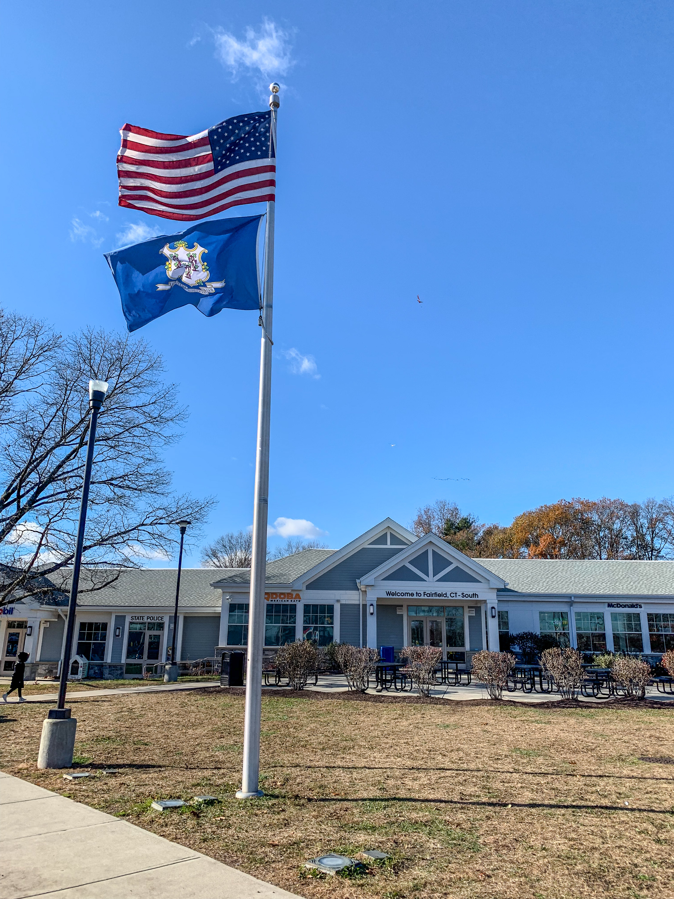 Connecticut flag flies in front of the Westbound Fairfield Service Plaza on I-95.